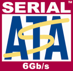 Serial ATA (SATA) 6Gb/s logo